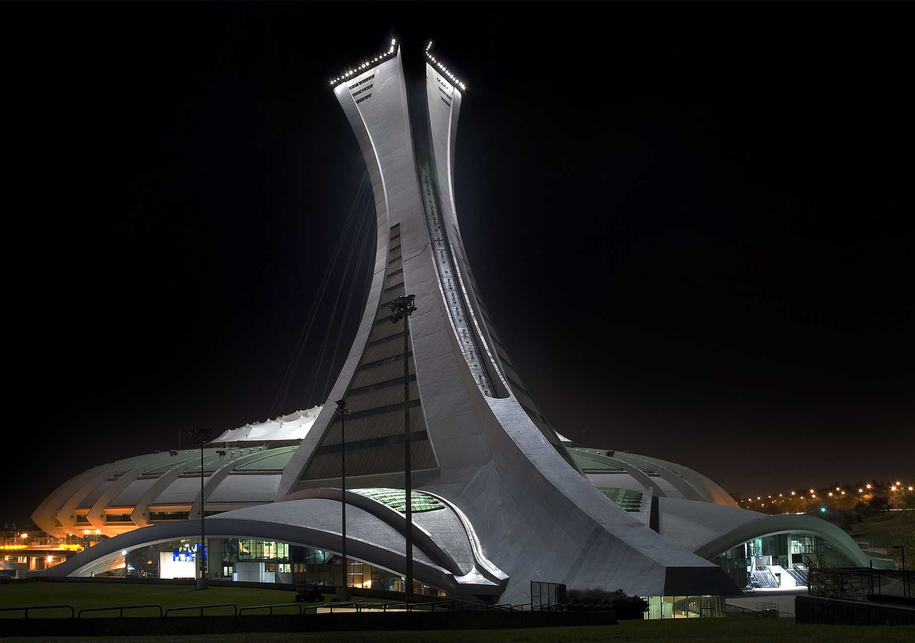 Made of 4 different exposition settings (0.5, 5, 10, 15) Olympic Stadium of Montreal from back-left